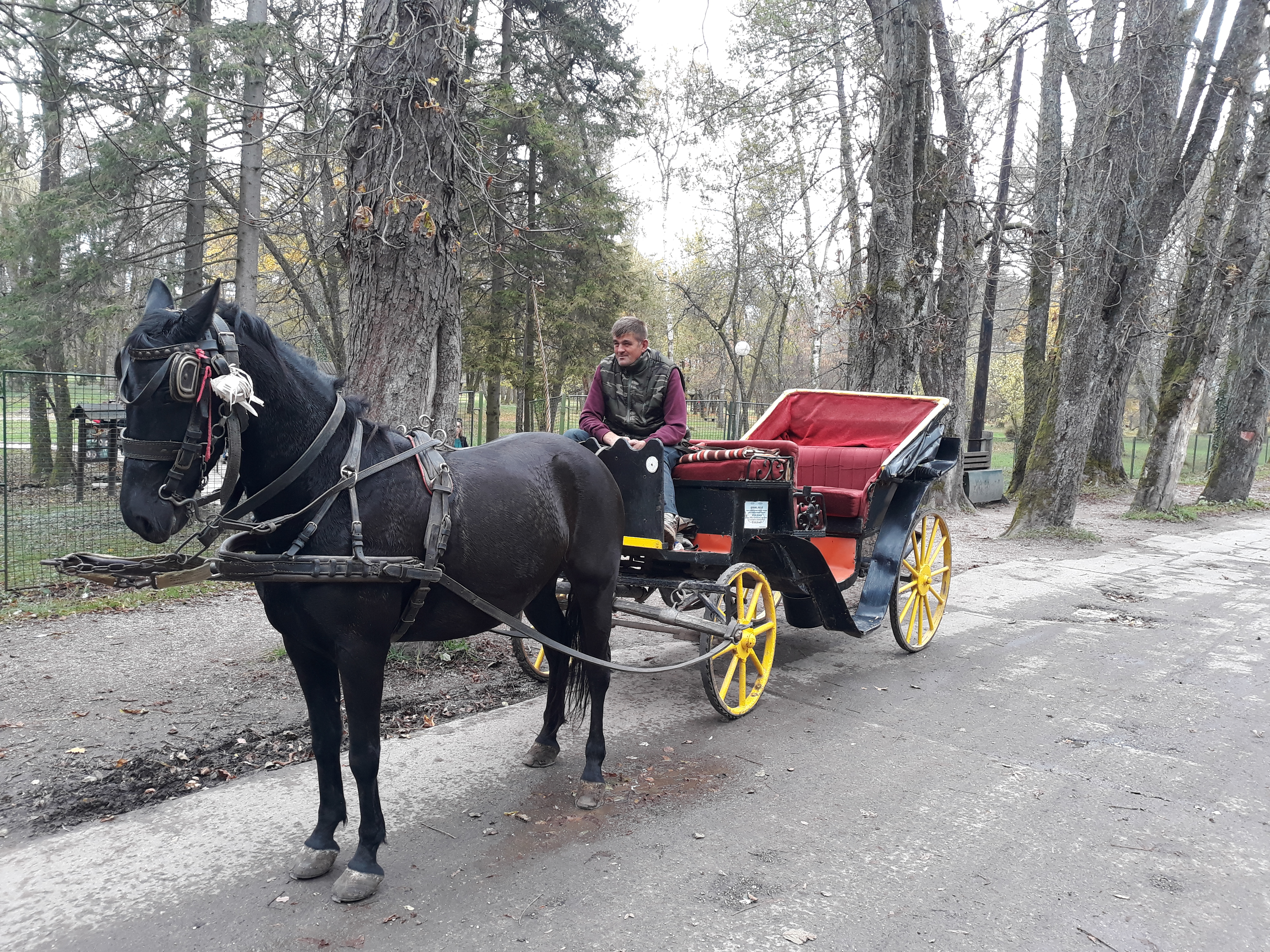 Horse carriage at Velika aleja, Sarajevo